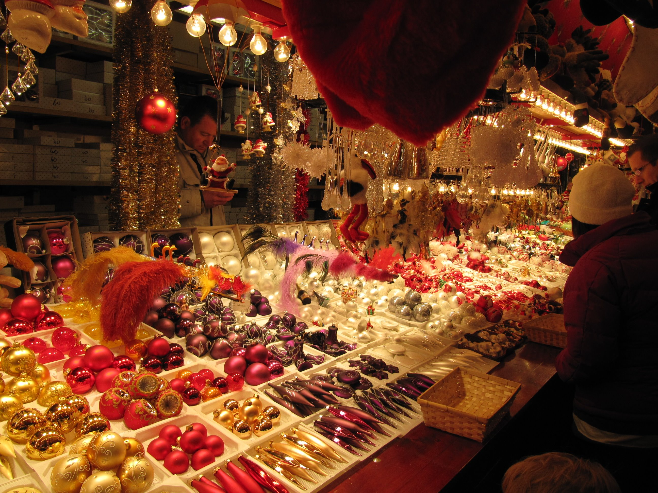 Christmas market, Strasbourg